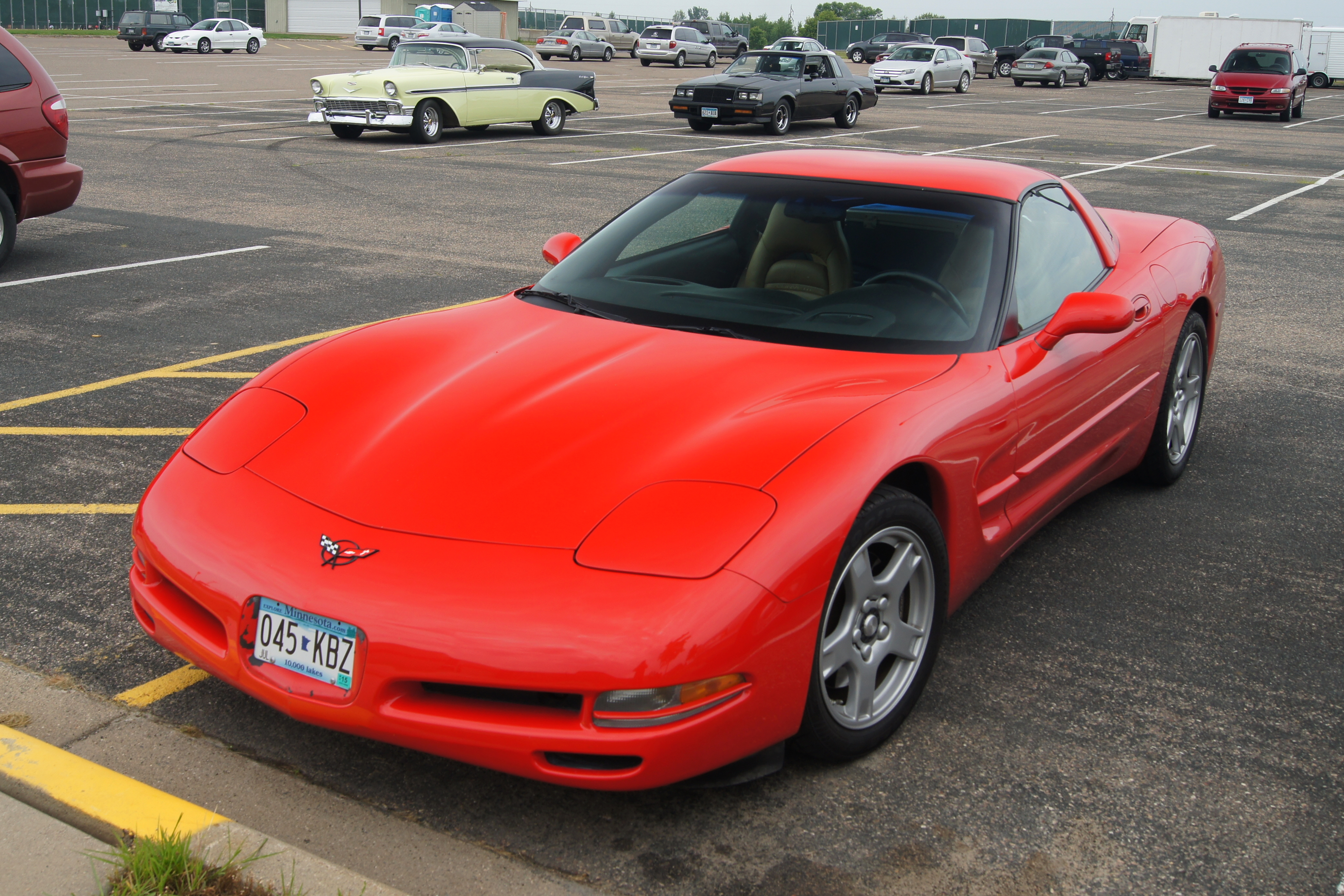 28th Annual New London to New Brighton Antique Car Run Lunch Stop Buffalo High School Buffalo Minnesota Mile 78.8 More Car Pictures